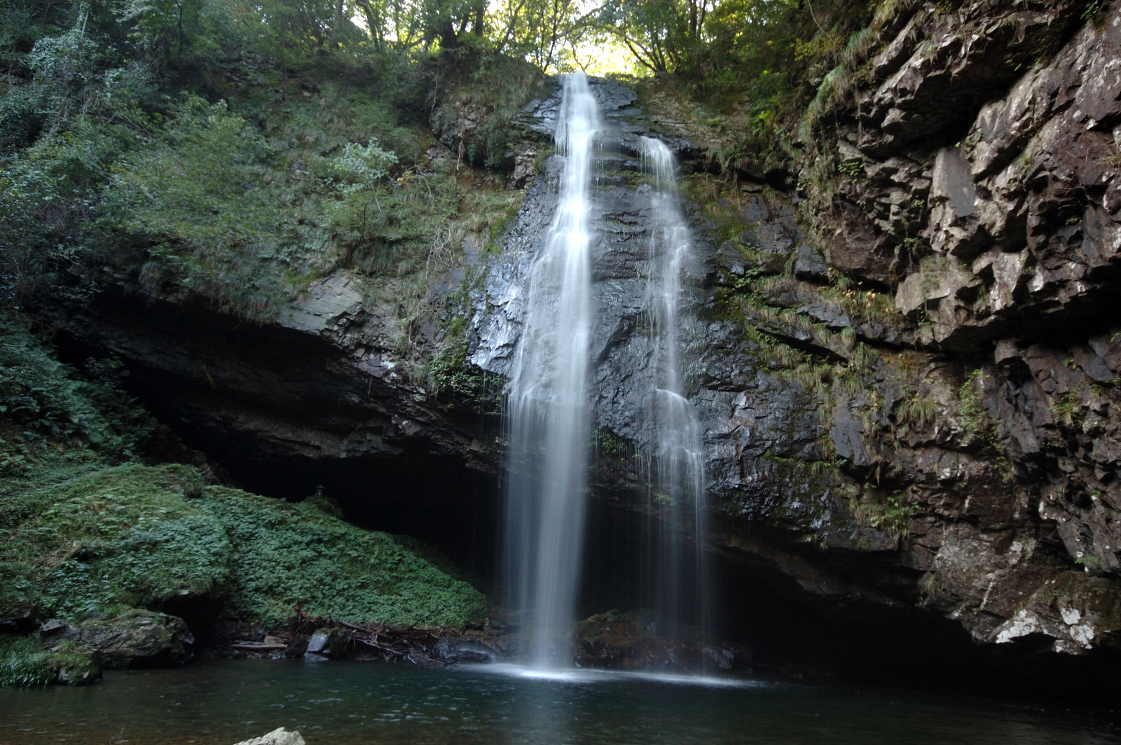 Odaki(Male waterfall) of Ryuuzugadaki waterfalls